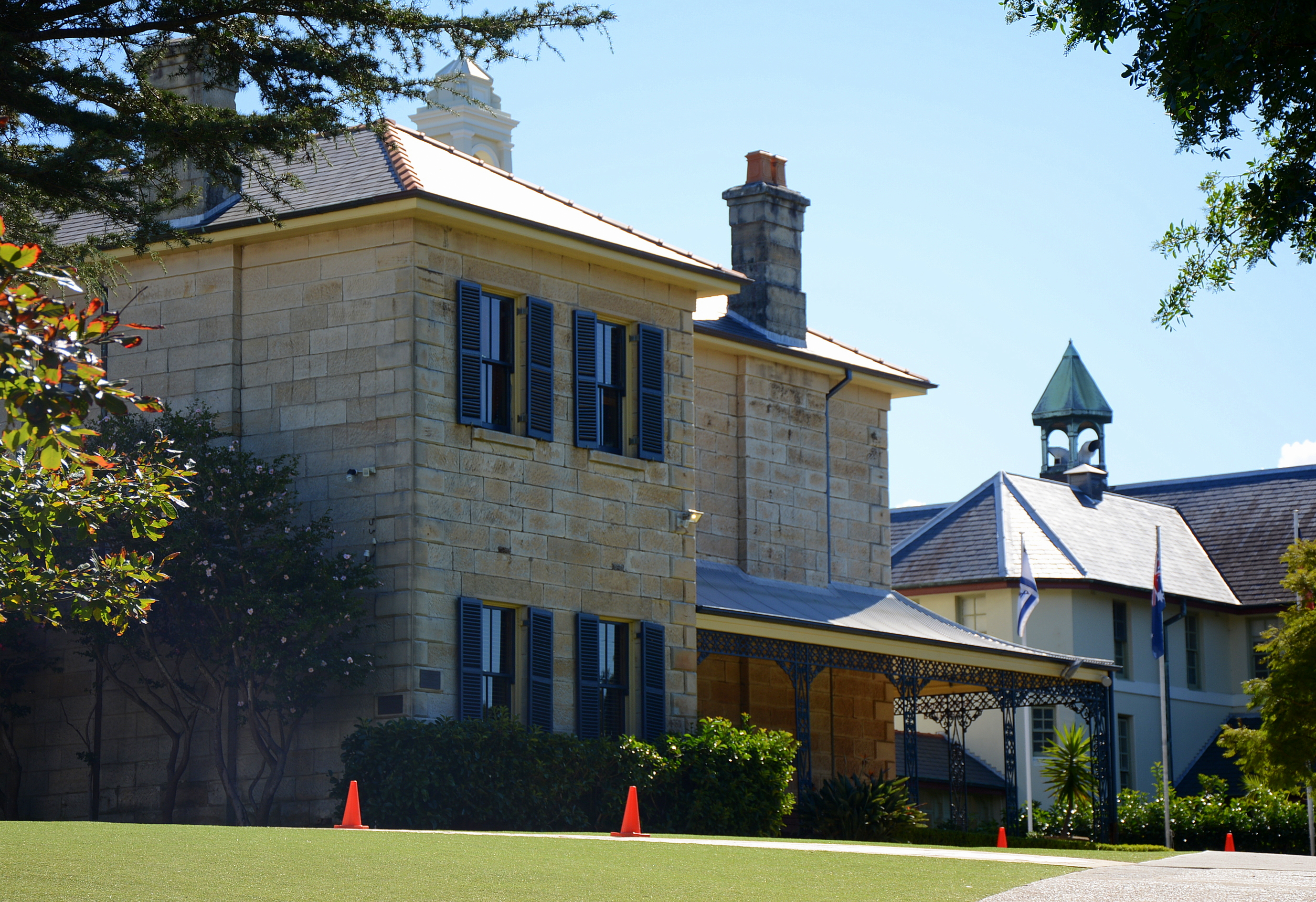 Emanuel School, Randwick, Sydney (former Catholic Novitiate)